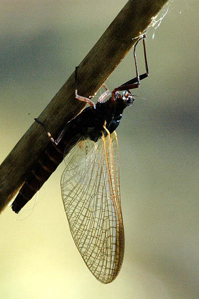 Picture taken in Commanster, Belgian High Ardennes . Species: Leptophlebia marginata subimago